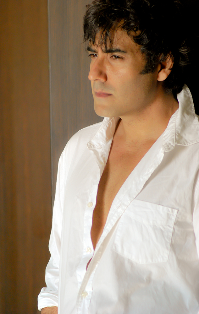 Karan Oberoi Photoshoot